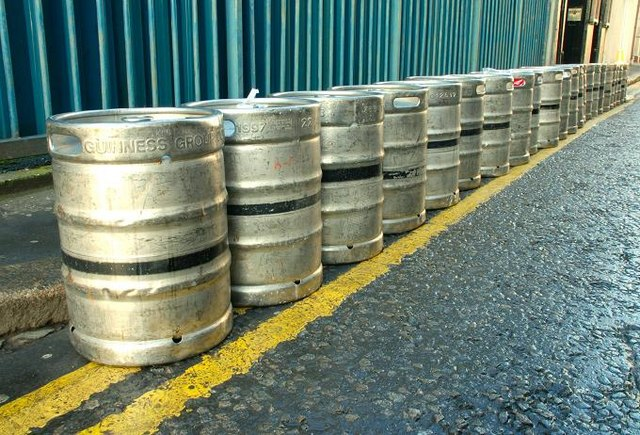 Beer kegs, Belfast A row of Guinness kegs awaiting collection in Skipper Street.